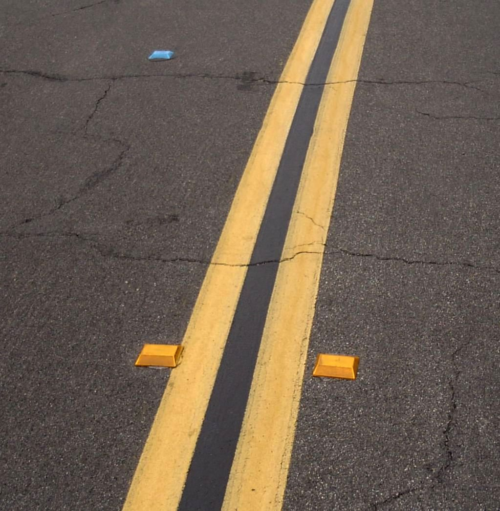 Three cat's eyes on a road.